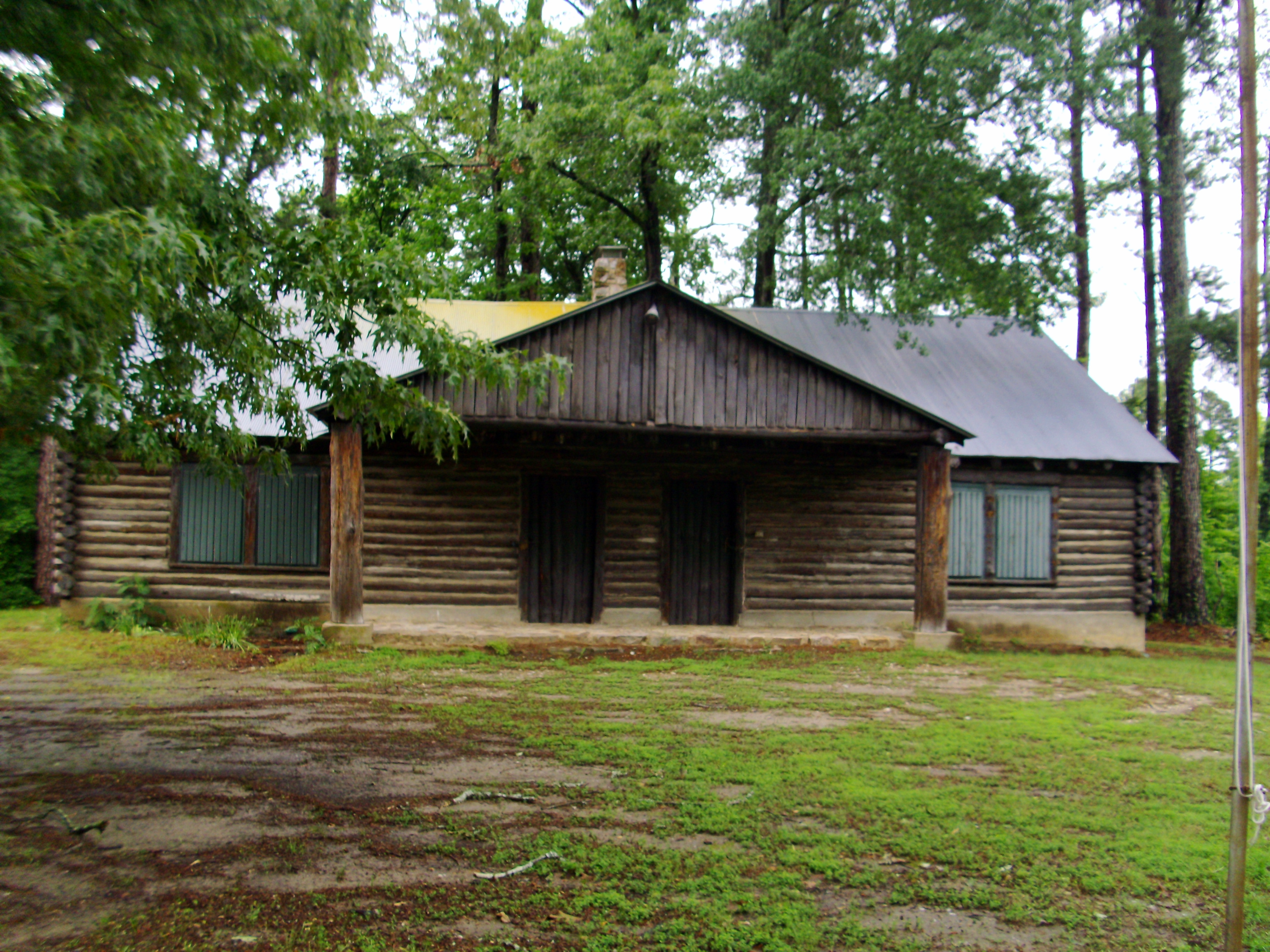 1939 Rustic-style structure built through National Youth Administration